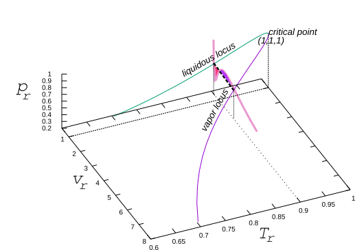 Locus of coexistence for two phases of van der Waals fluid